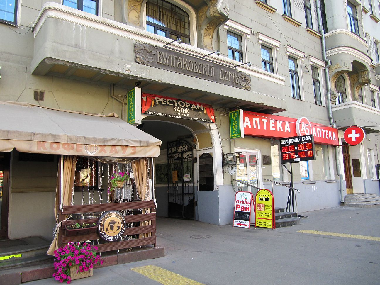 Bulgakov House in Moscow (Bolshaya Sadovaya Street, 10, ap. 50). View from the Garden Ring Street. Mikhail Bulgakov's novel "Master and Margarita" was written here.